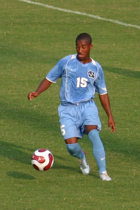 UNC Tar Heels v. William & Mary, 8/26/06 at Winston-Salem (Wake Forest/adidas Classic). Tar Heels won 2-0 on goals from Hunter and Bickford.